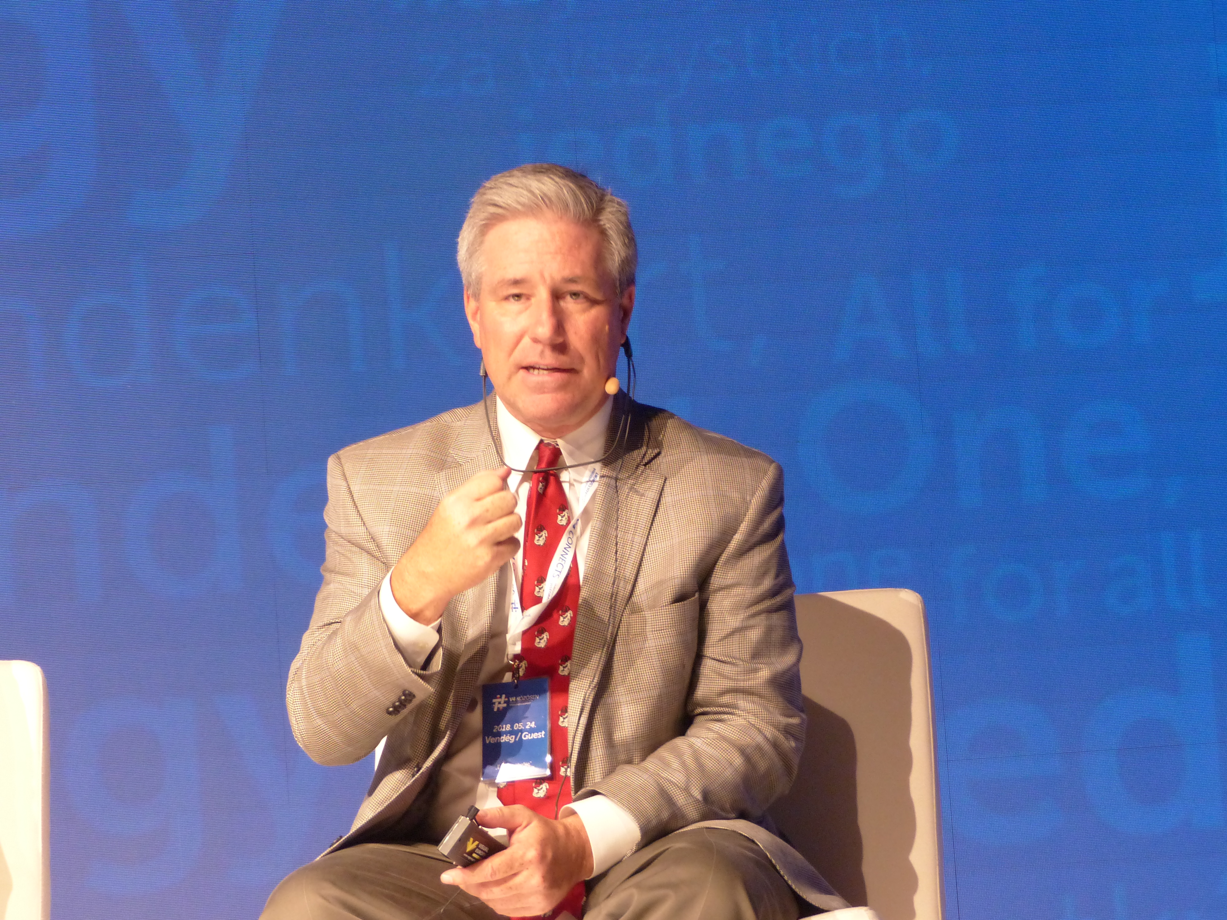 Daniel J. Mitchell, Economist, author, Chairman and Co-founder of the Center for Freedom and Prosperity, USA. Visegrád Four – the Engine of Europe's Economy. The Future of Europe international conference. Second day, the 24th of May, 2018. Polgári Magyarországért Alapítvány, XXI. Század Intézet, V4 Connects. Várkert Bazár, Budapest, Hungary, Central Europe. V. PANEL DISCUSSION: Levente Magyar, Deputy Minister, Minister of State for Parliamentary Affairs, Ministry of Foreign Affairs and Trade, Hungary, Marcin Piasecki, Chief Investment Officer & Deputy CEO, Polish Development Fund, Vladimír Vaňo, Group Economist & Head of Communications, CentralNic Group PLC, Slovakia Jan Macháček, Chairman of the Board of Trustees Institute for Politics and Society, Czech Republic Daniel J. Mitchell, Economist, author, Chairman and Co-founder of the Center for Freedom and Prosperity, USA Moderator: László György, Chief economist, Economic Policy Research Group, Századvég Foundation